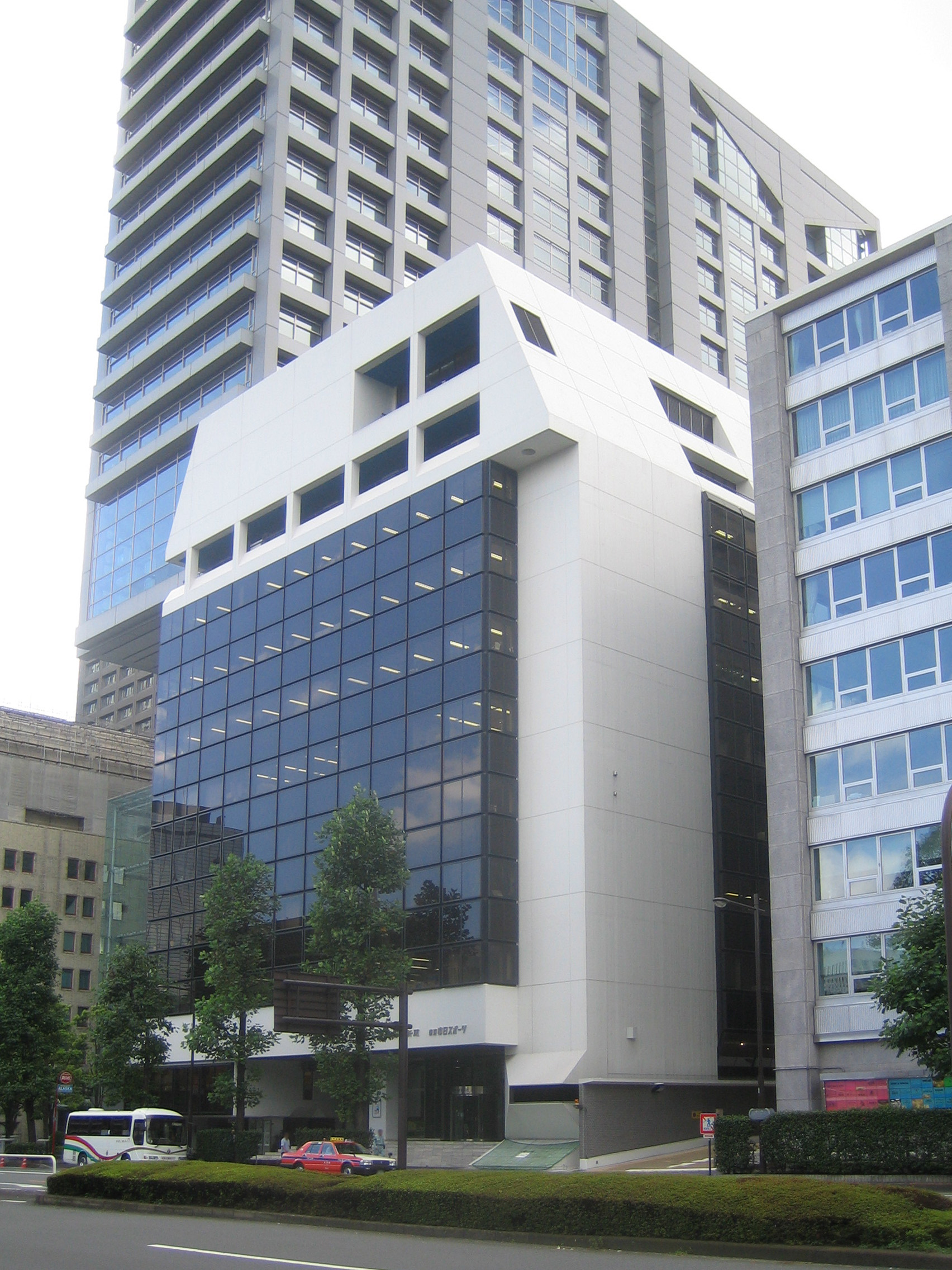 Hibiya Chunichi Building (日比谷中日ビル), at Uchisaiwaicho, Chiyoda, Tokyo, Japan